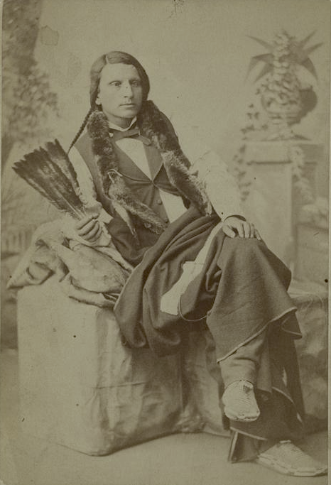 Chief Red Shirt at Carlisle, Pennsylvania